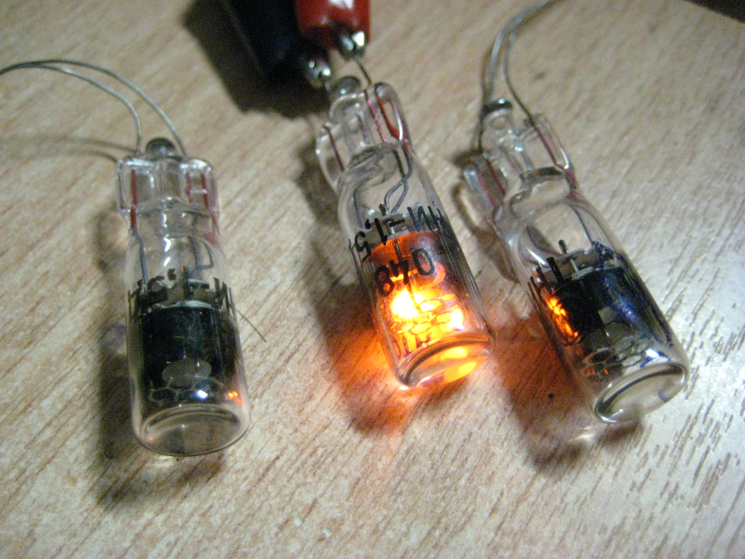 USSR neon lamp TNI-1,5D